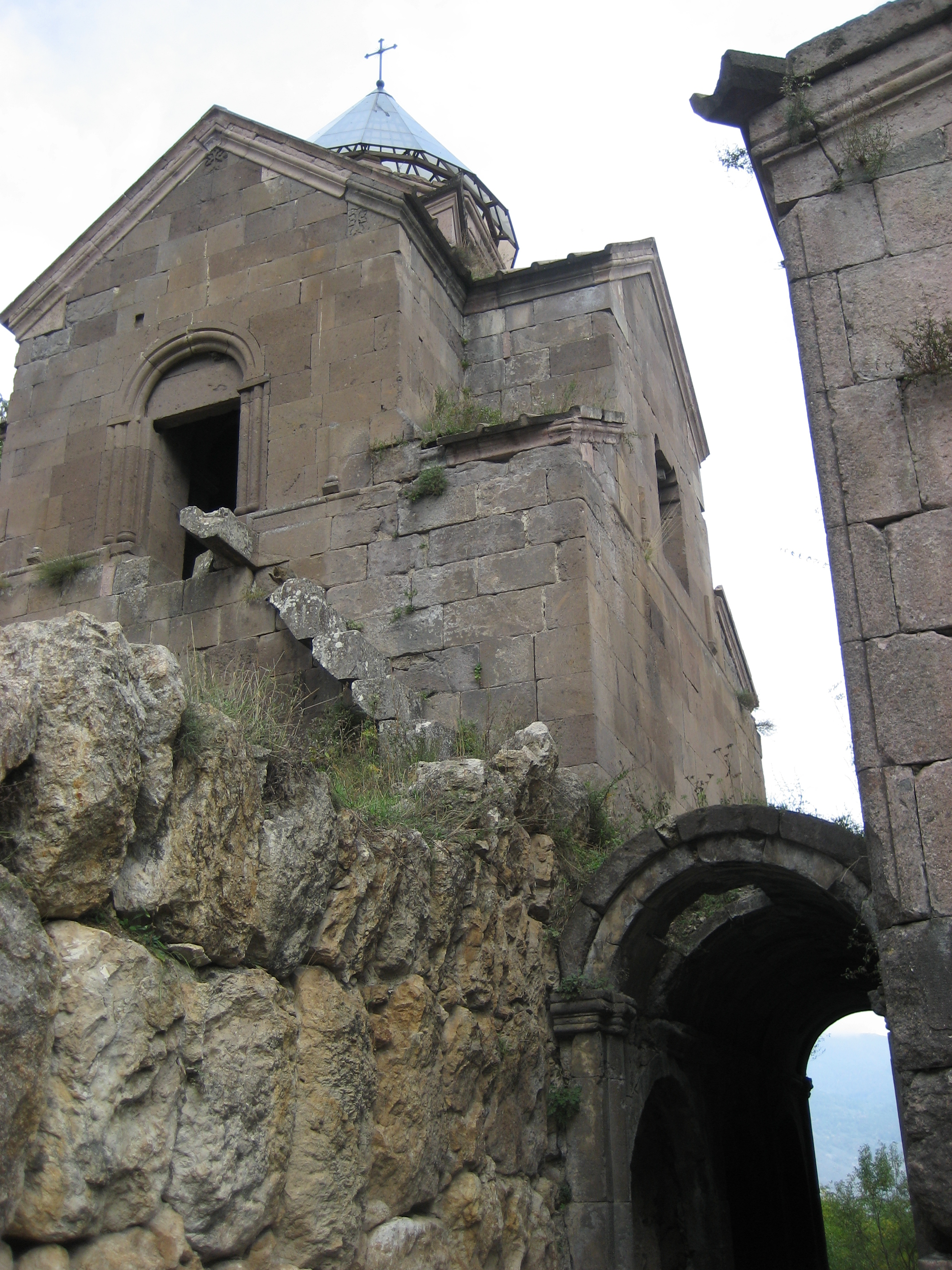 Belltower and gallery at Goshavank Monastery